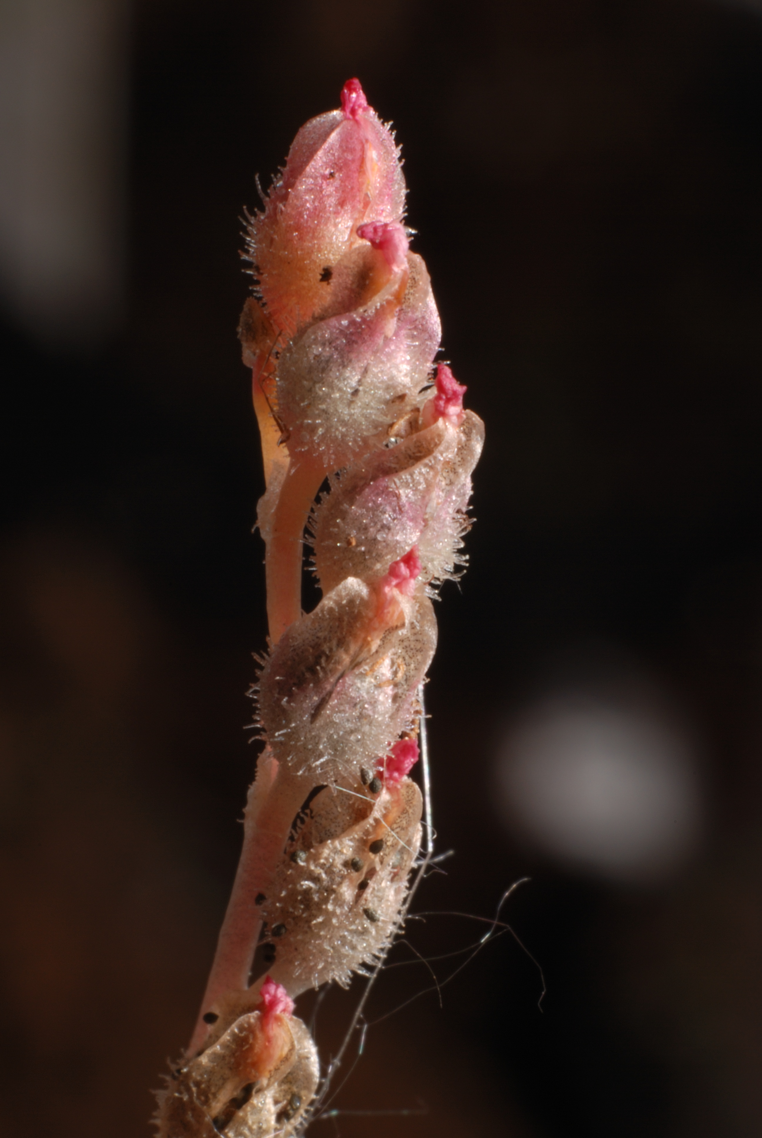 Drosera burmanni